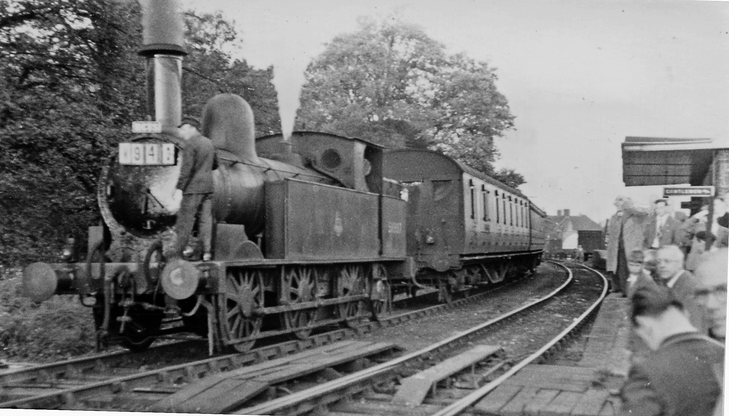 RCTS Rail Tour at Newport Pagnell. This is the view east towards the town center. Ex-LNW Webb 'Coal Tank' 2F 0-6-2T No. 58887 (designed 1882, withdrawn 4/55) has run round its train from Wolverton. This is part of the RCTS 'Buckinghamshire Rail Tour' - and the fireman is changing the headlamps for the return run. This engine also took us from Cheddington to Aylesbury High Street and back (see SP8213 : Aylesbury High Street Station (remains), with RCTS Rail Tour train) on the complex tour that had started at Blackfriars. The Newport Pagnell branch from Wolverton was closed to passengers on 7/9/64, to goods on 22/5/67.